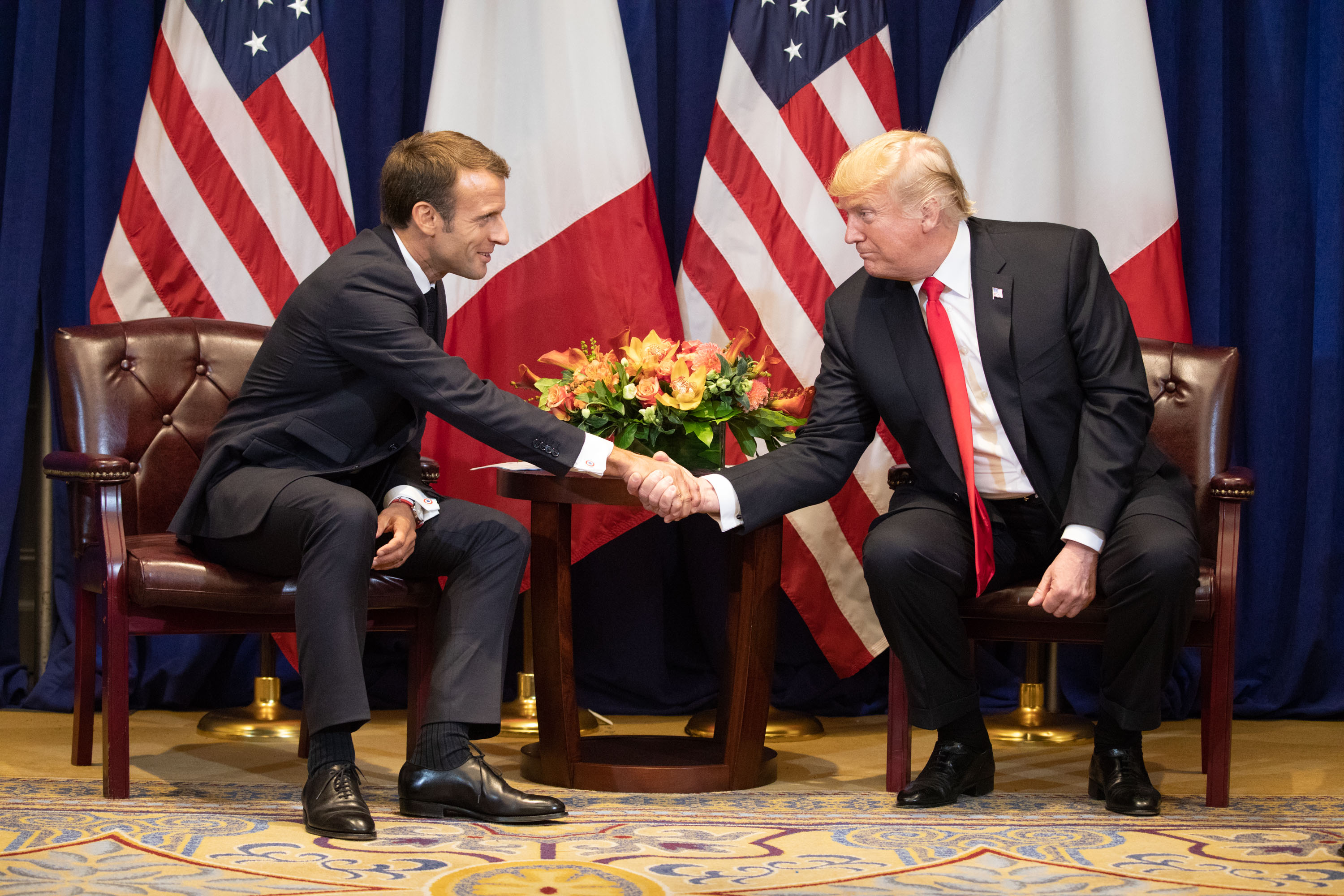 President Donald J. Trump and Emmanuel Macron, President of the French Republic, participate in their bilateral discussion Monday, Sept. 24, 2018, at the Lotte New York Palace in New York. Vice President Mike Pence joins.(Official White House photo by Shealah Craighead)